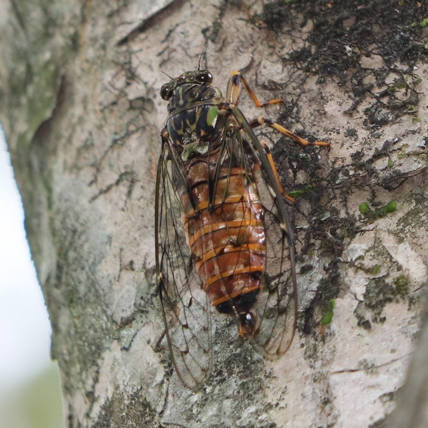 Terpnosia nigricosta, male in Mount Yokoyama in Shiga prefecture, Japan.